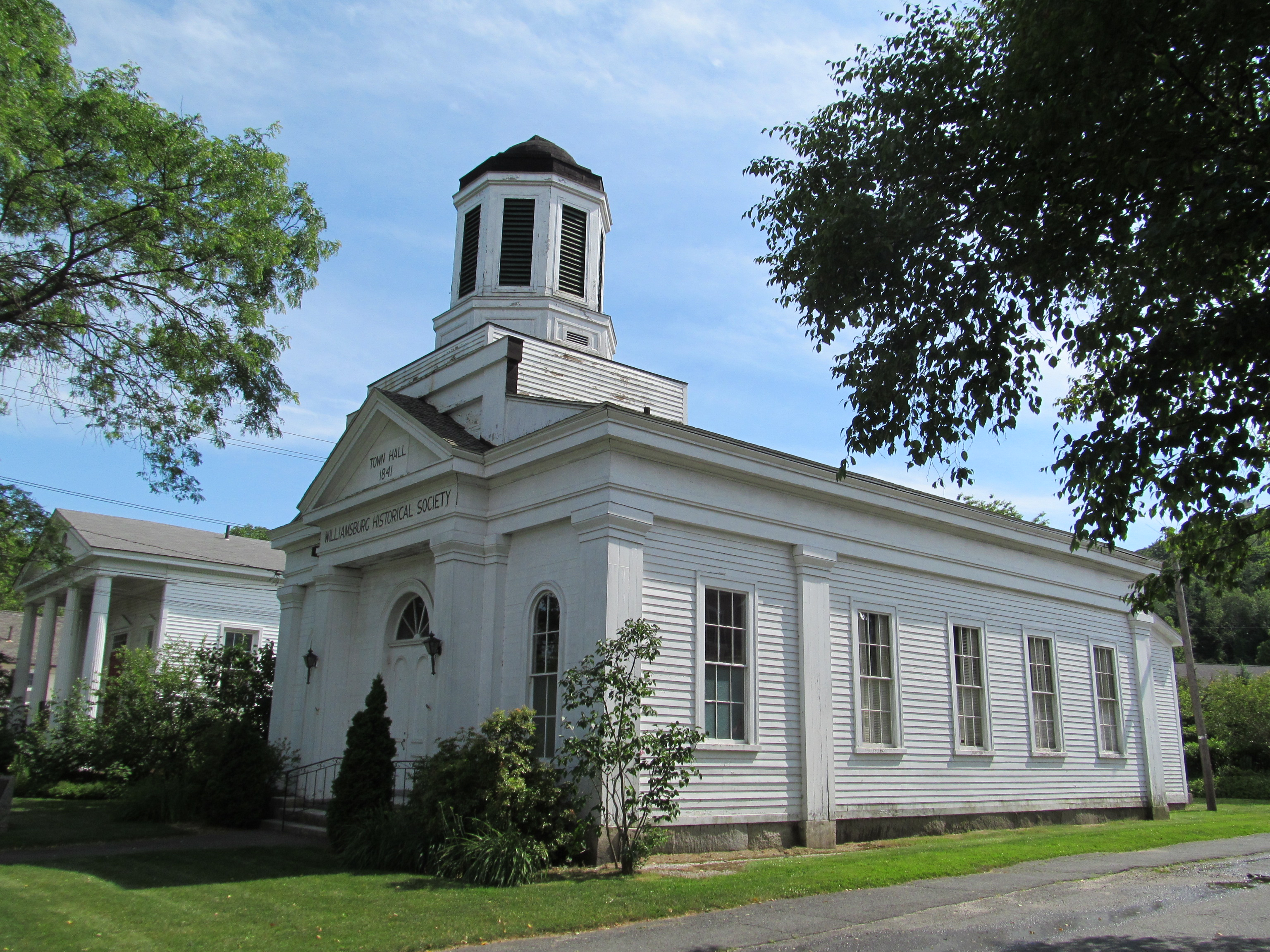 Old Town Hall, Williamsburg Massachusetts